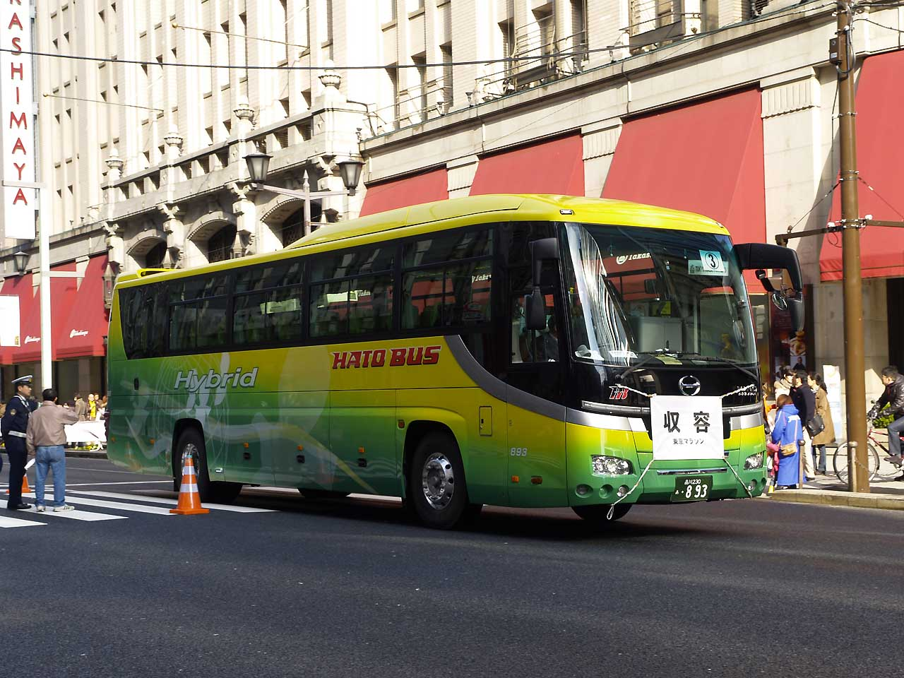 Fleet of Hato Bus, operation for Tokyo Marathon as broom wagon. Model: Hino Selega Hybrid RU1ASAR License plate: TKS230 A-893 Place: Nihonbashi, Chuo Ward, Tokyo Japan